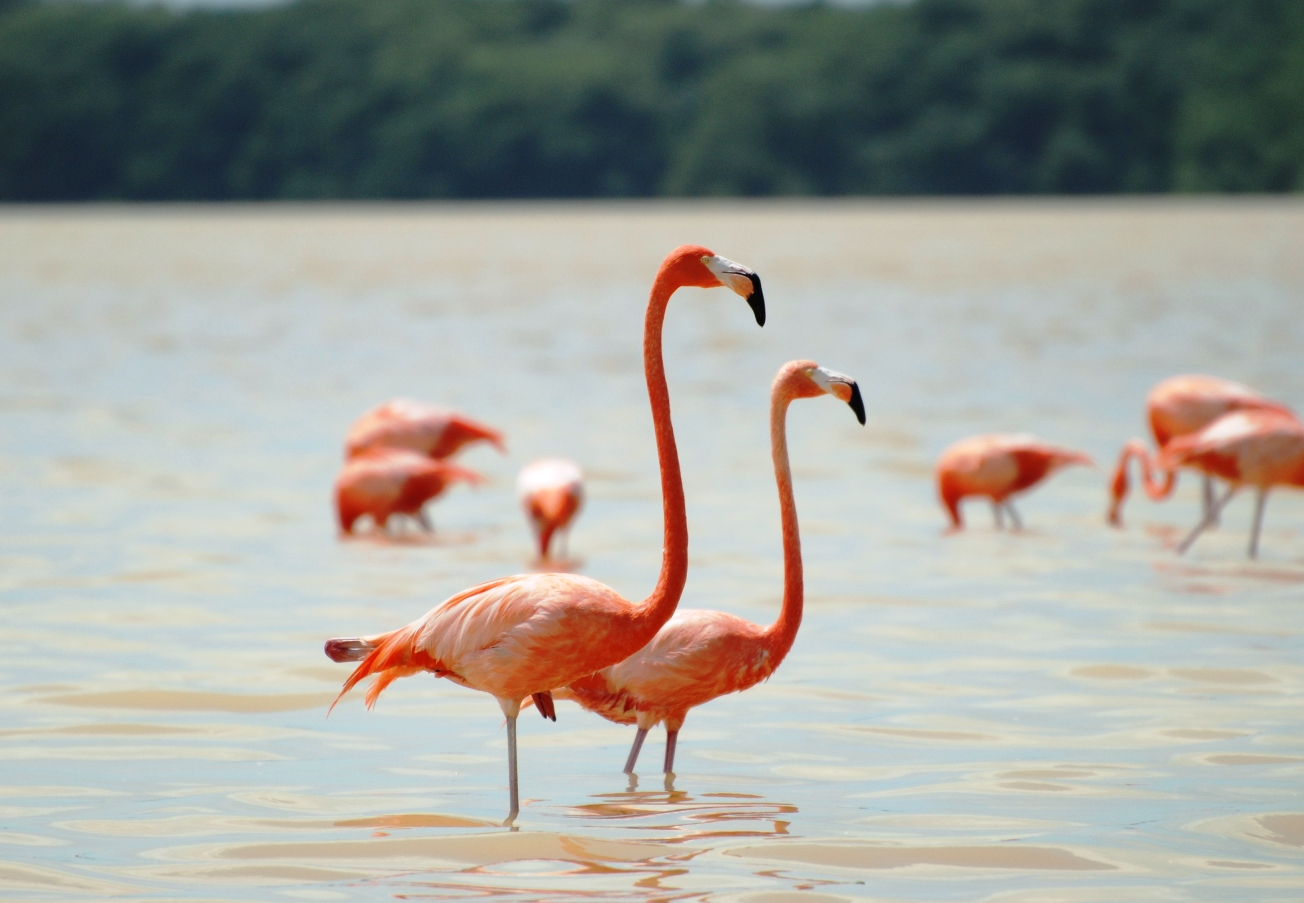 American Flamingo Phoenicopterus ruber, Celestún National Park, Yucatán, Mexico